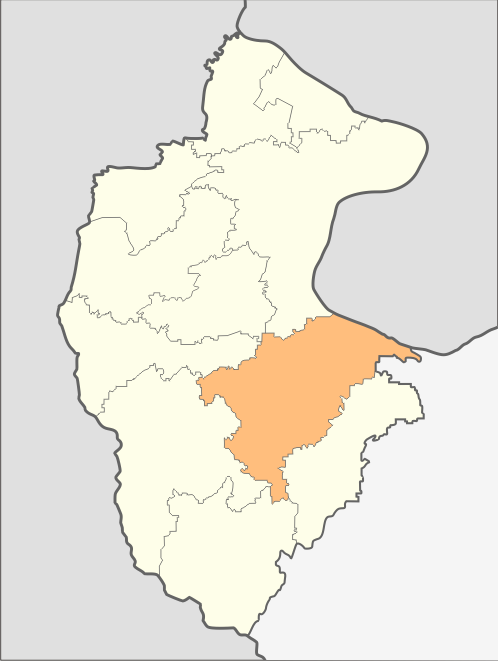 Map of Dimovo municipality, Vidin Province